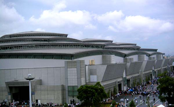 Tokyo Big Sight in Comic Market 66